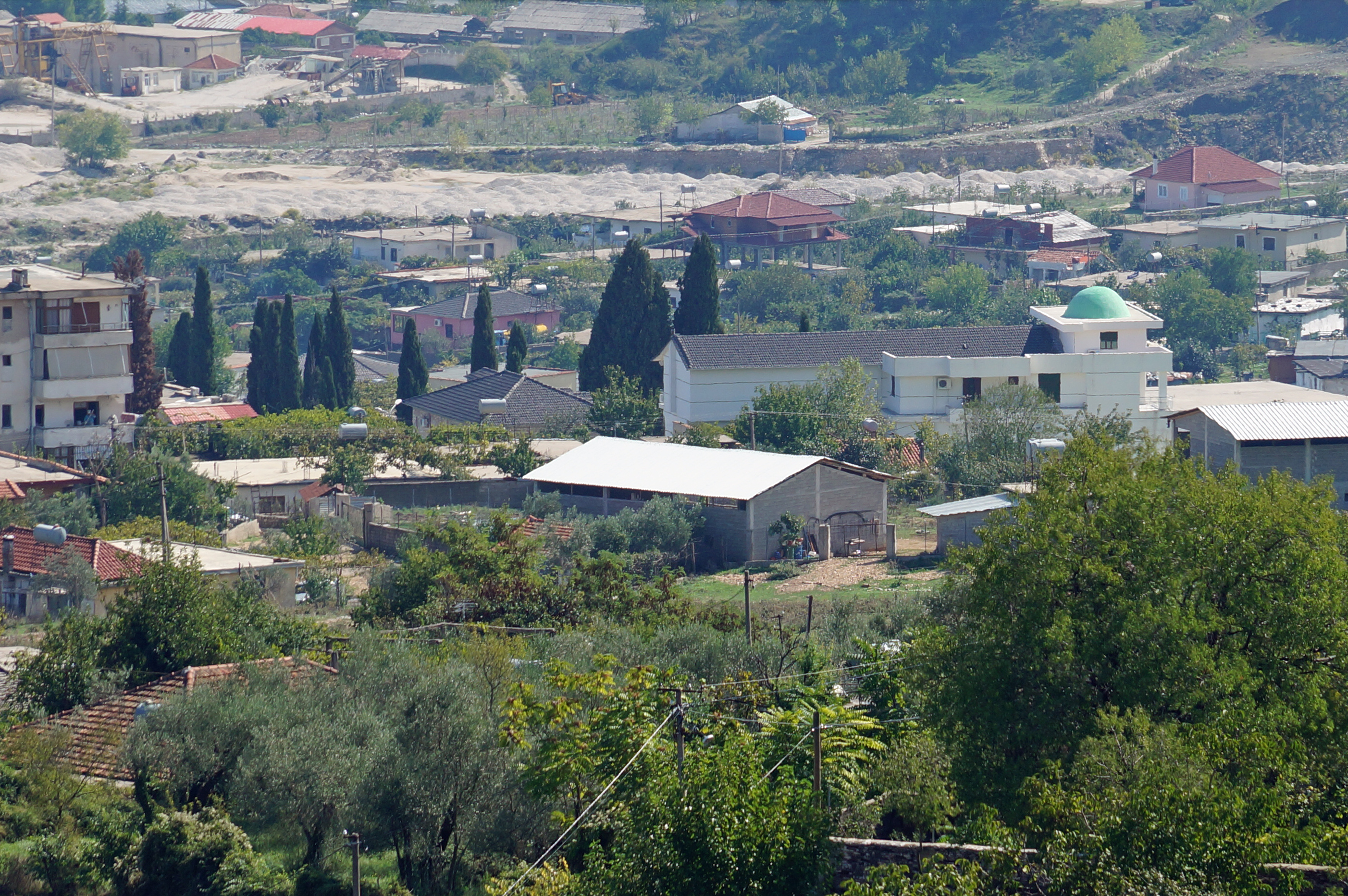 Zall Teqe in Gjirokastër from the distance